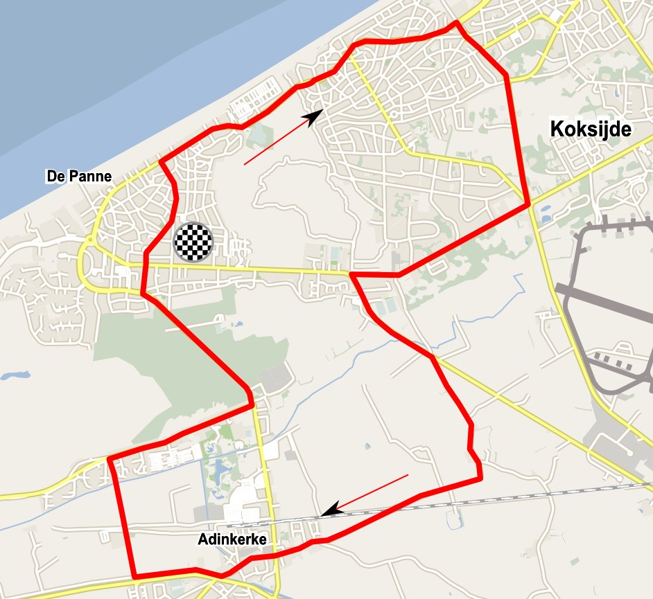 Map of the final circuit of Brugge-De Panne 2018, women.